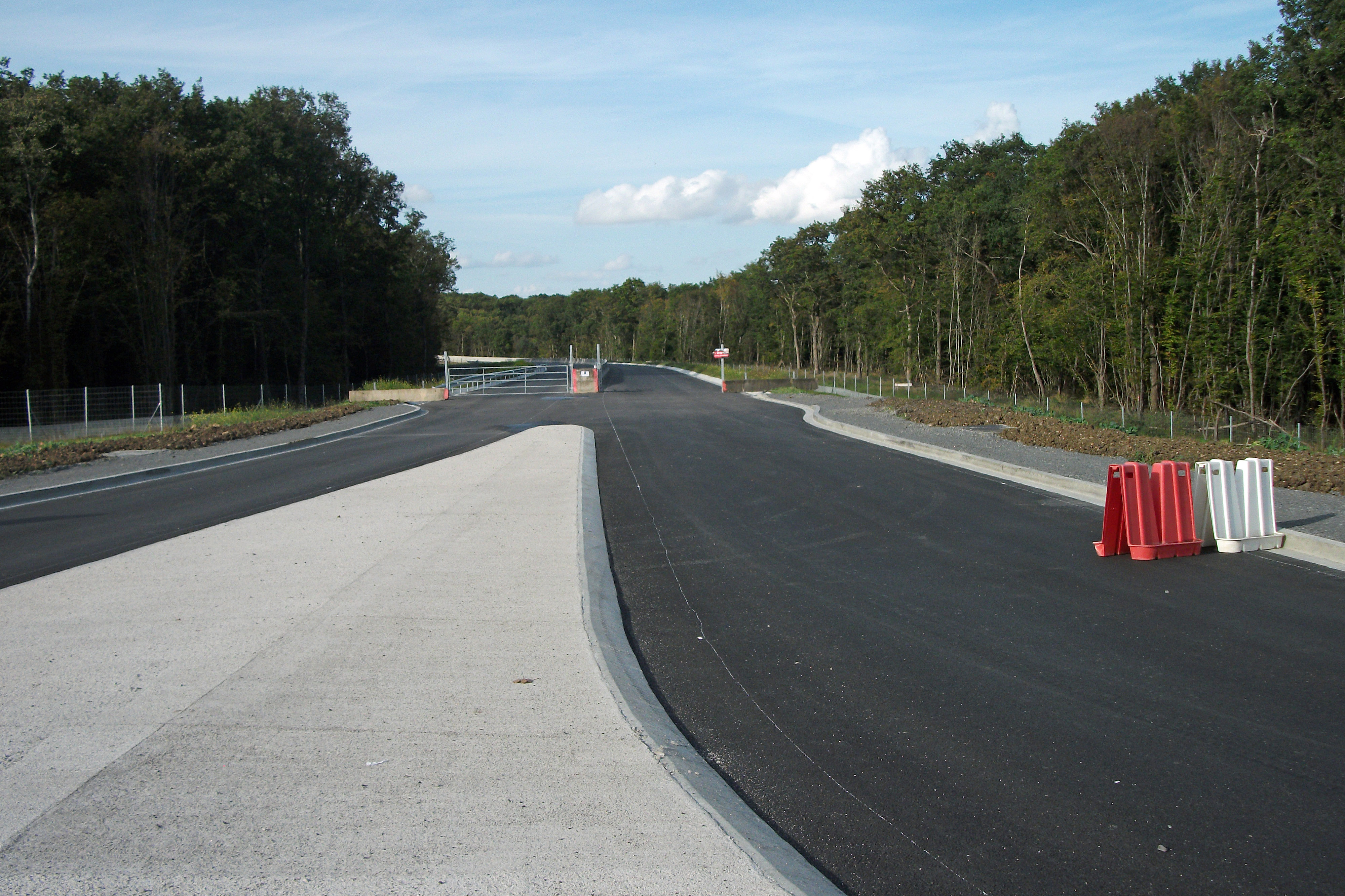 End of A719 autoroute on a roundabout with departmental roads 2209, 215 and Vichy bypass (under construction), in Espinasse-Vozelle, one day before the opening to non-motorized vehicles and 3 months 1 day before its opening to authorized vehicles.